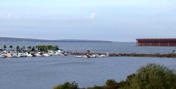 Harbor of Ashland, Wisconsin on Lake Superior, showing marina and loading pier (taken Sept. 30, 2004)